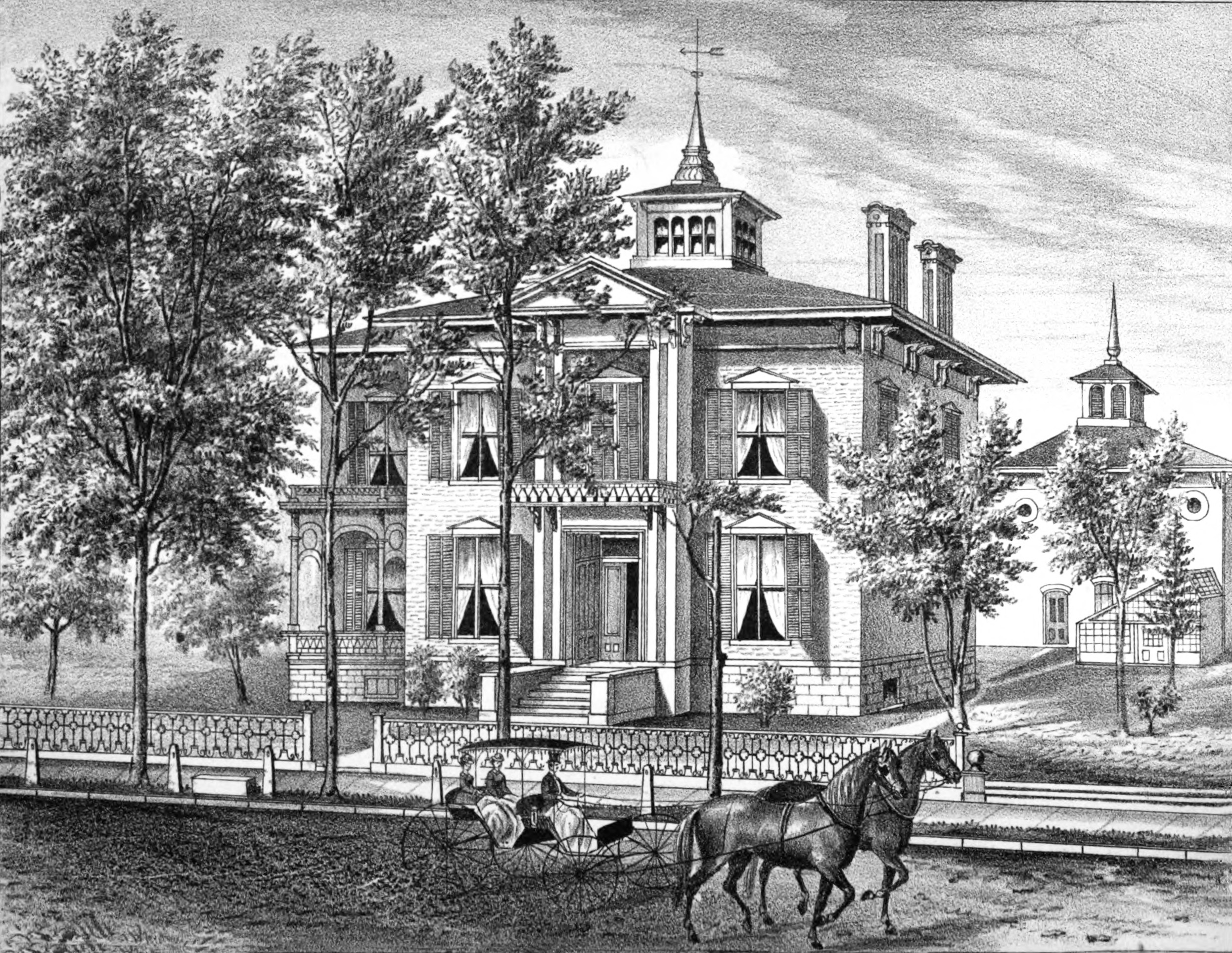 Titled "Residence of Hon. J. I. Case, Main St. Racine, Wis." Jerome Increase Case (1819–1891)founded Case Corporation to manufacture threshing machines in Racine, Wisconsin.